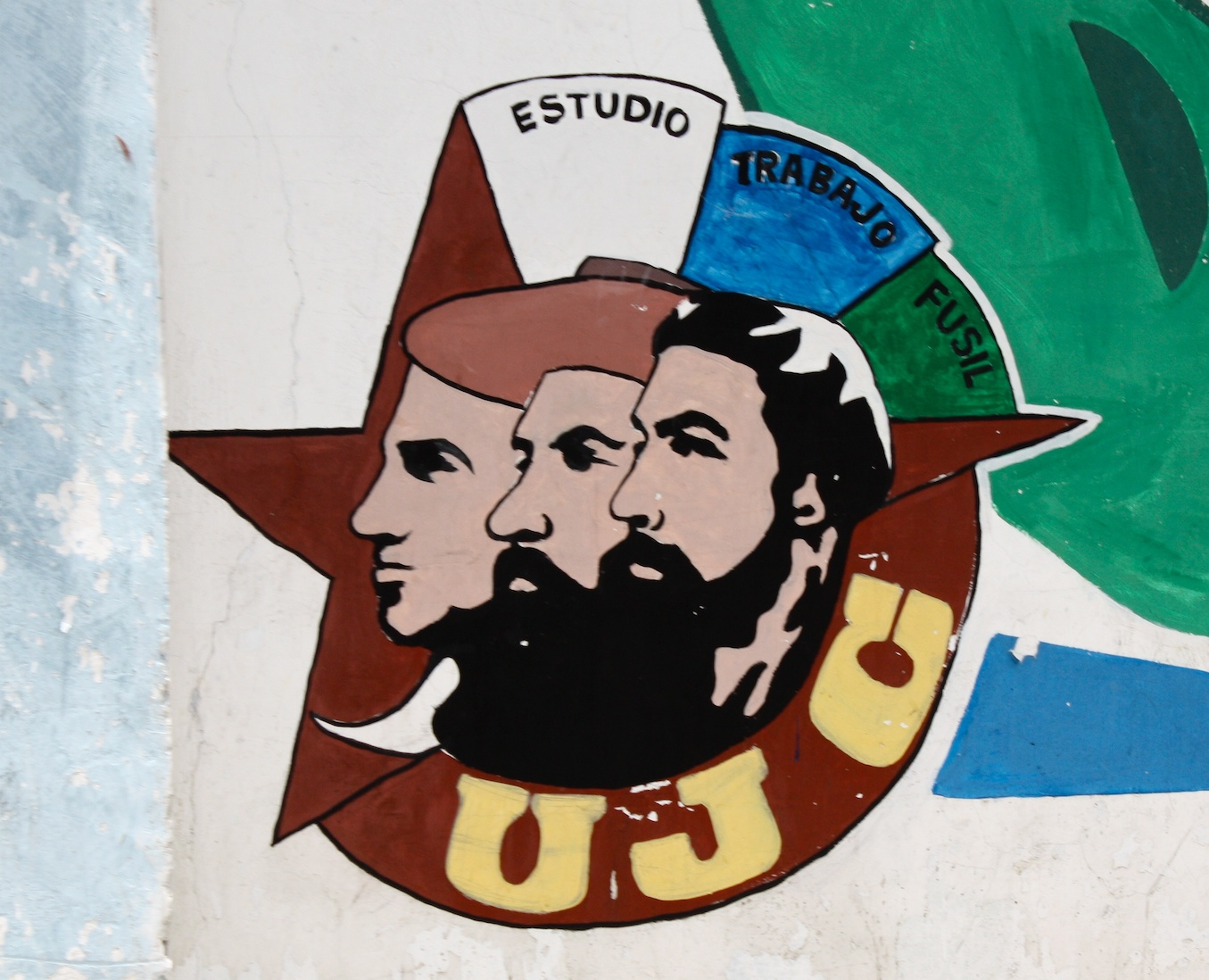 UJC logo in Havana, Cuba. It shows the stylized faces of Julio Antonio Mella, Camilo Cienfuegos and Che Guevara. The motto Estudio, Trabajo, Fusil means "Study, Work, Rifle".